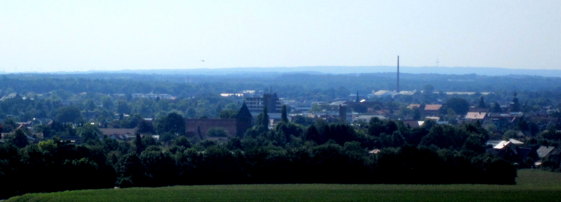 View from the ferris wheel of "Stoppelmarkt" to Vechta